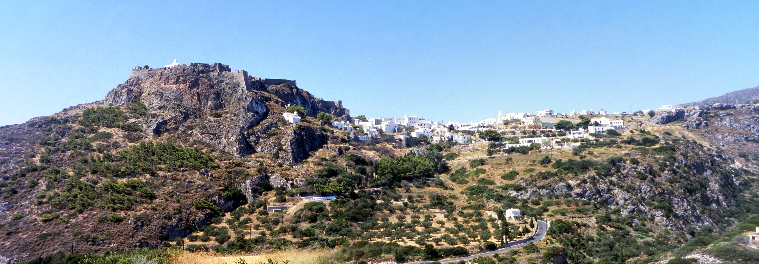 View on the capital of the Island of Kythira, Hora. View of the castle of Chora.